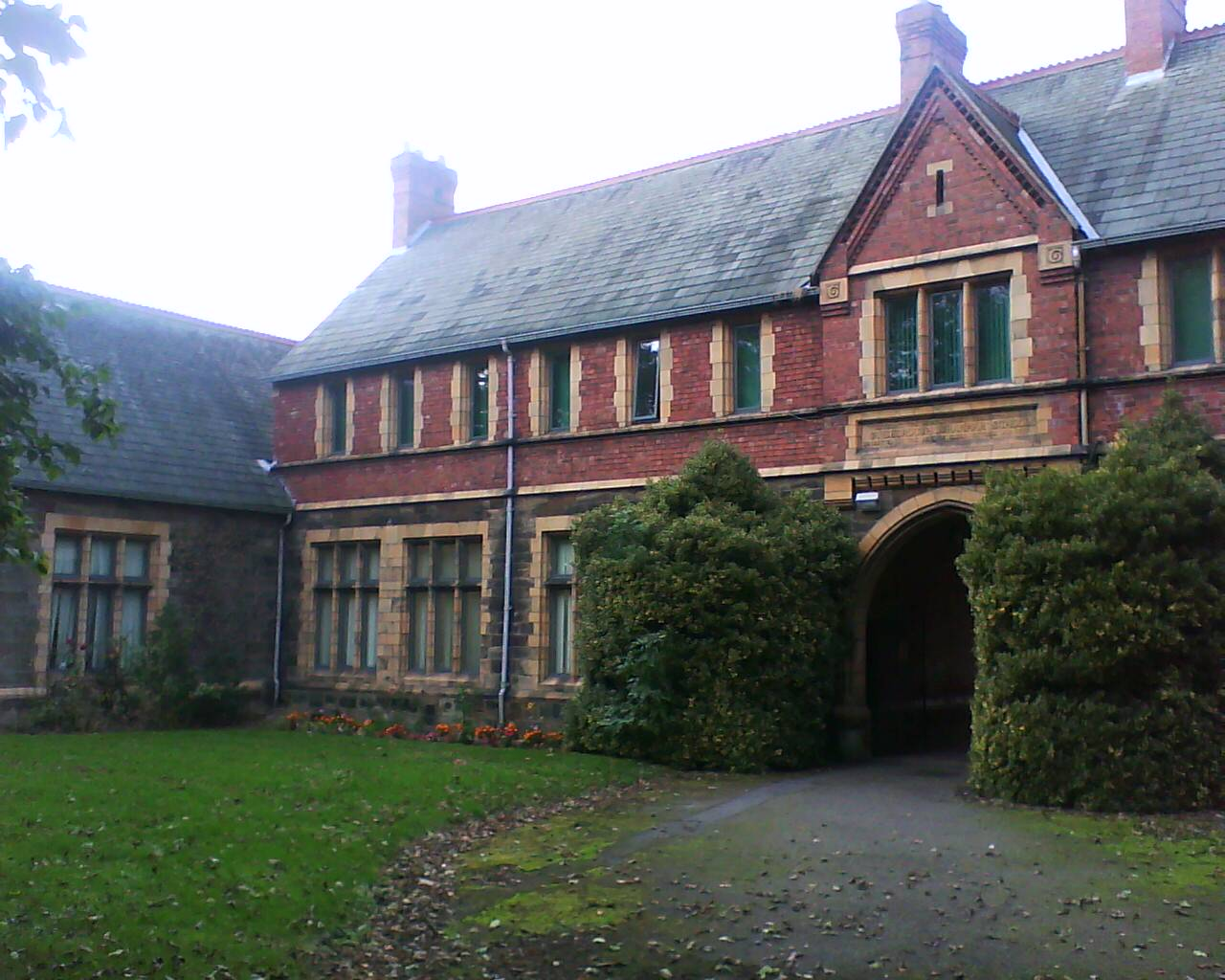 Rear view of the Waterhouse building at Prior Pursglove College.